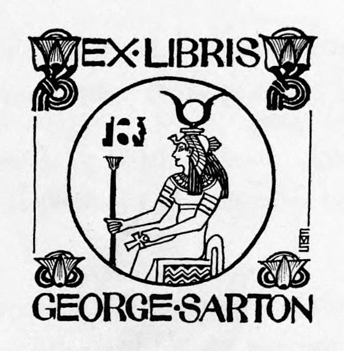 Bookplate of George Sarton